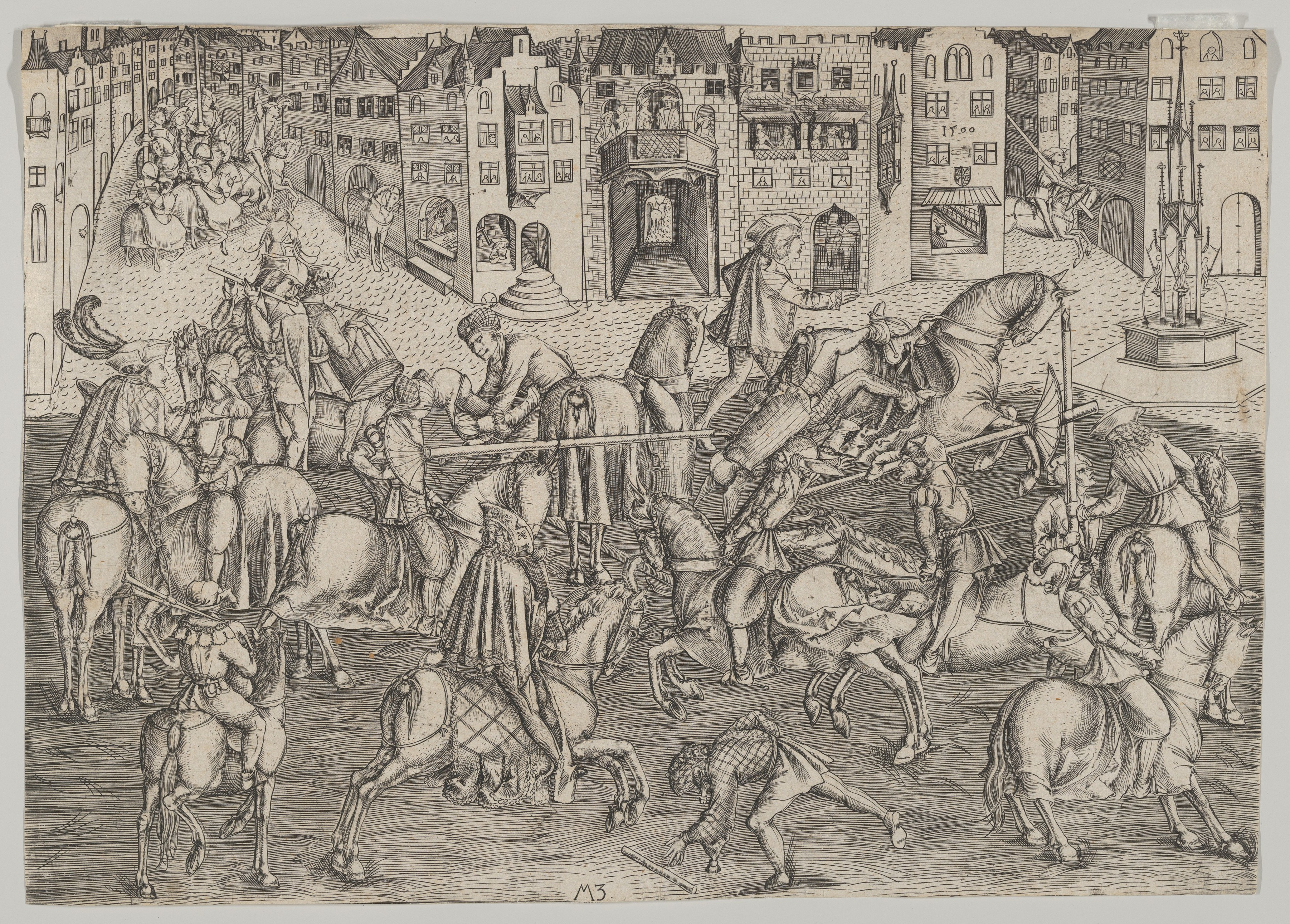 Print; Prints